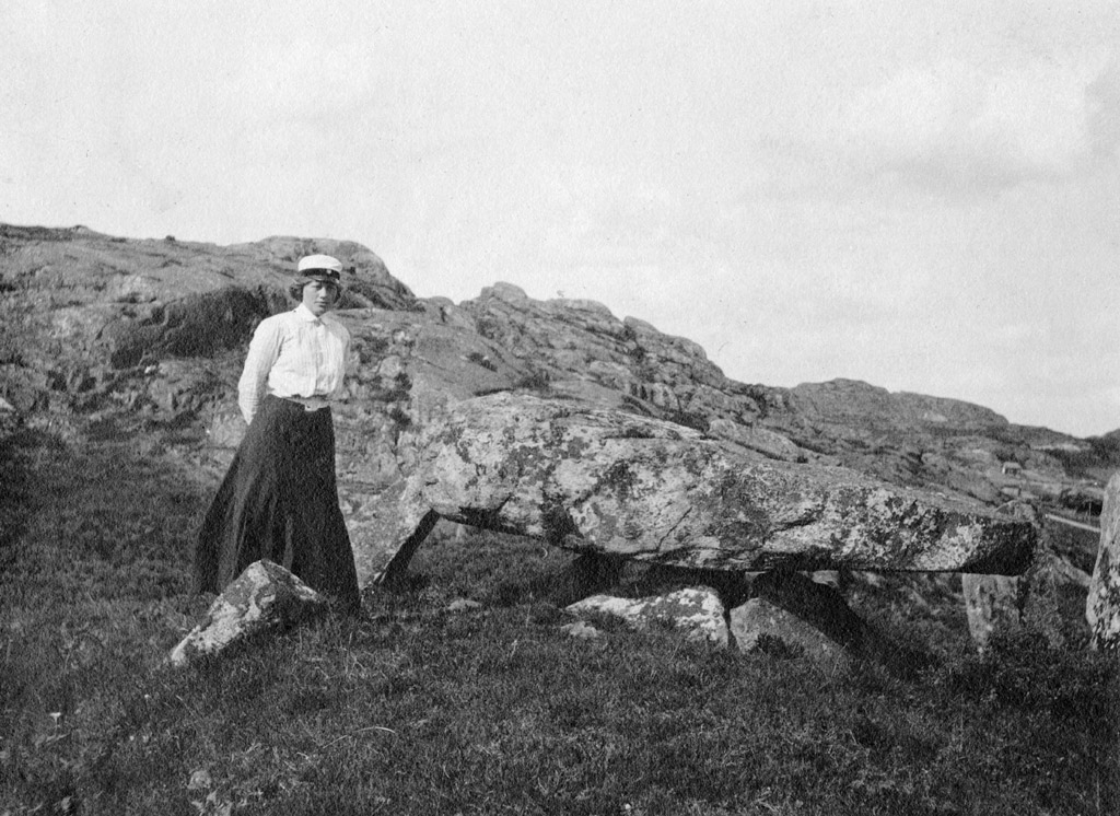 Female student at prehistoric dolmen in Tyfta, Svenneby parish, Bohuslän, Sweden. Format: Albumen print